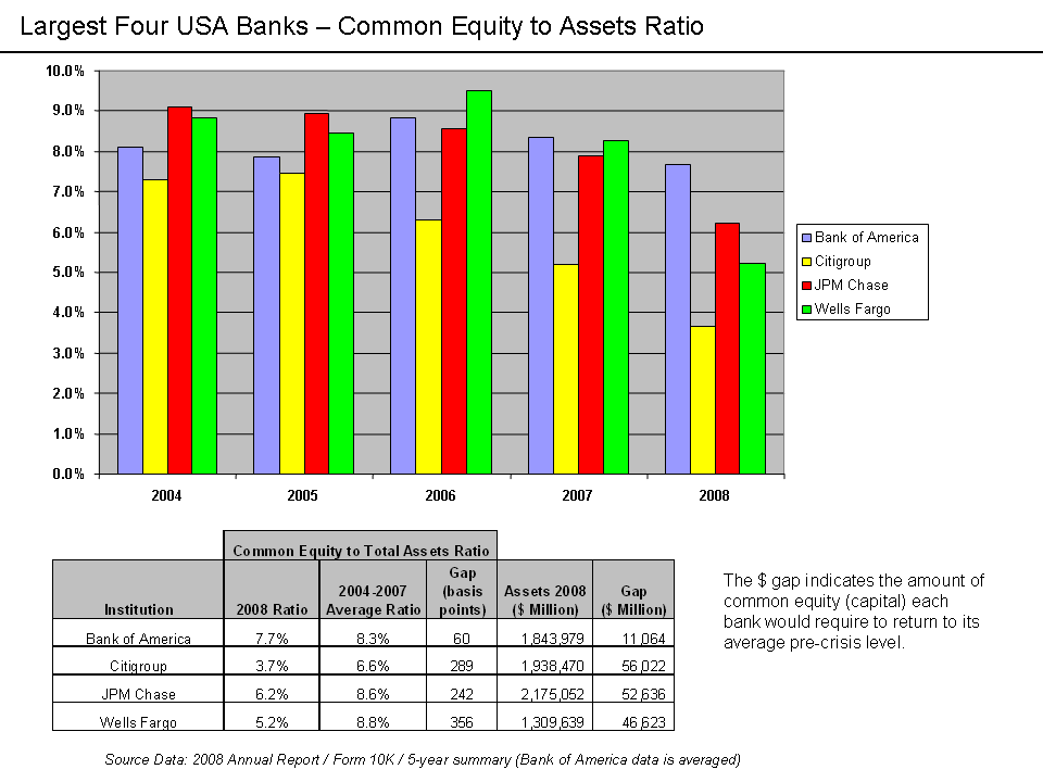 Common Equity to Total Assets Ratios for major U.S. banks Source Data The source data is from the 2008 annual reports of each company available on their website. There is a five year annual summary that contains the source data used. Note that Bank of America (unlike the others) averages its numbers. Wells Fargo Citigroup Bank of America JP Morgan Chase A basis point is 1/100th of a percentage point. The concept of the gap analysis is to indicate how much additional common stock equity each bank would have to acquire to return to its 2004-2007 average ratio. Computation steps: Identify the basis-point gap between the 2008 ratio and 2004-2007 average ratio. Multiply the gap amount times the total assets of the bank. This shows the amount of additional capital required to return to the banks own pre-crisis averages. The amounts are in millions. For example, Wells Fargo would require $46.6 billion to return to its pre-crisis level of common equity capitalization. Alan Greenspan wrote in a March 2009 article that U.S. banks would require another $850 billion in his estimation, representing "an additional 3-4 percentage points of cushion in their equity capital to assets ratios."[1]